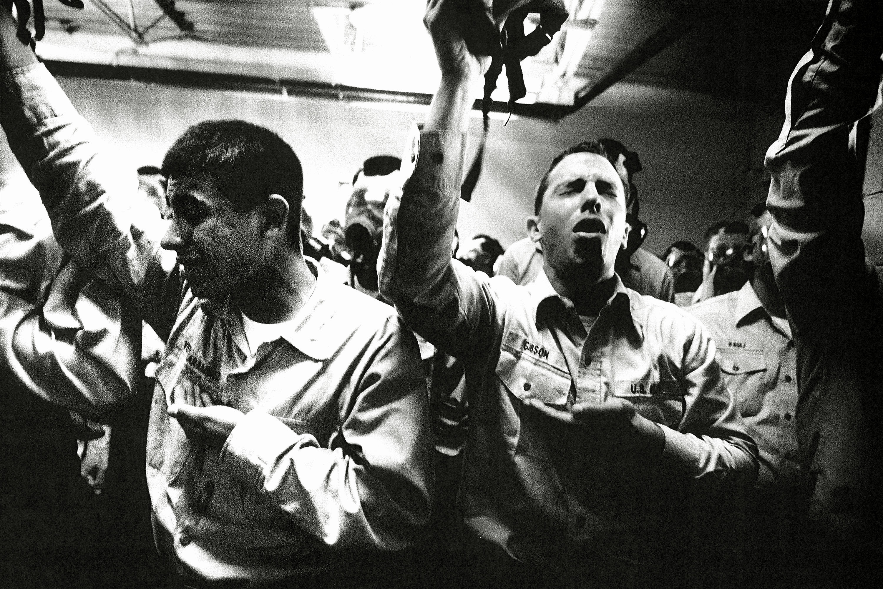 DD-SP-01-00009 Military Photographer of the Year Winner 1999 TITLE: "Gas Mask Mania" CATEGORY: Feature PLACE: Third Place Feature CAPTION INFORMATION: Navy recruits experience mild tear gas effects inside the "confidence chamber" at Recruit Training Command Great Lakes. IMAGE FILE #DD-SP-01-00009